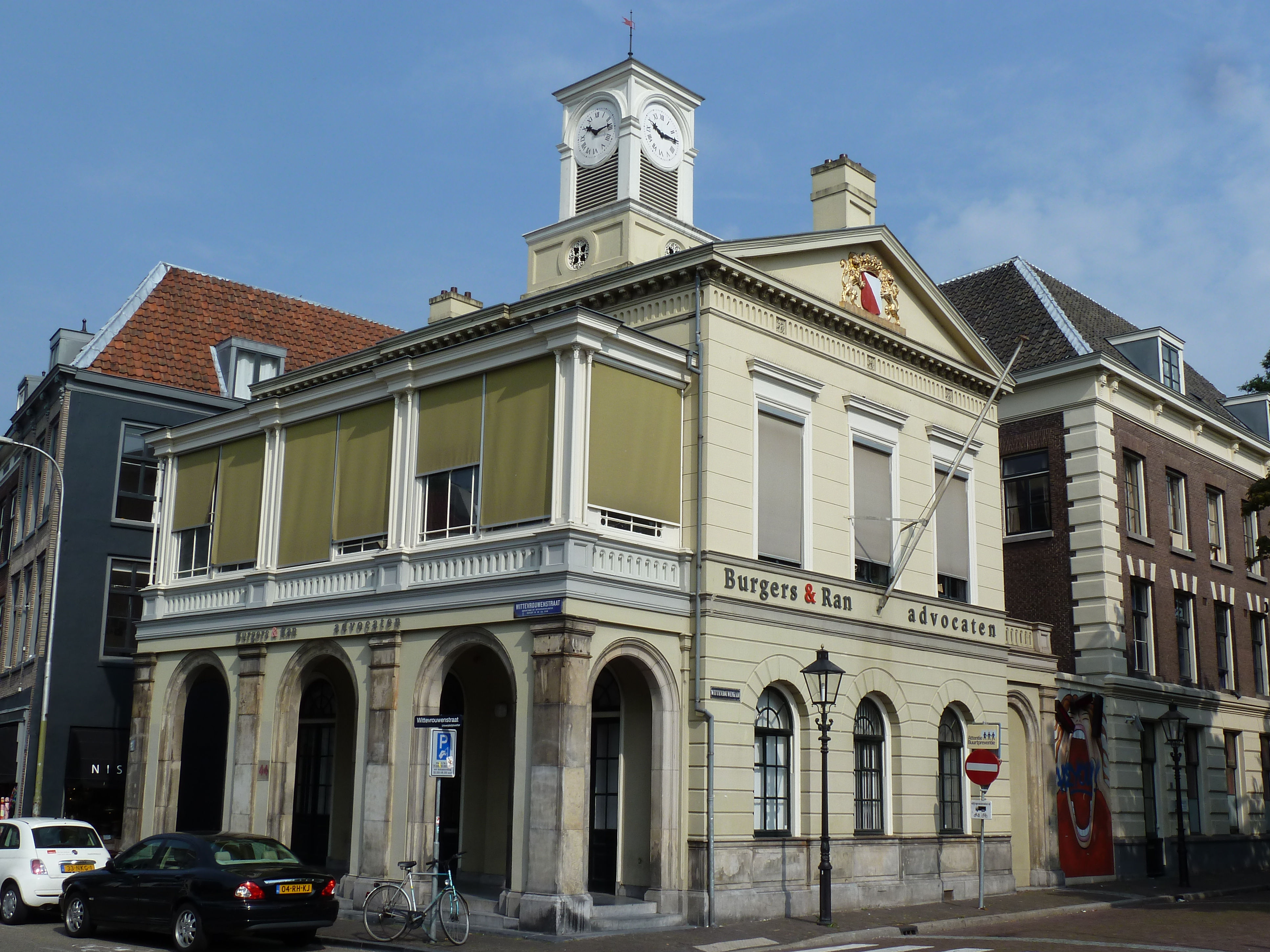 Former police station Wittevrouwen in Utrecht in the Nederlands